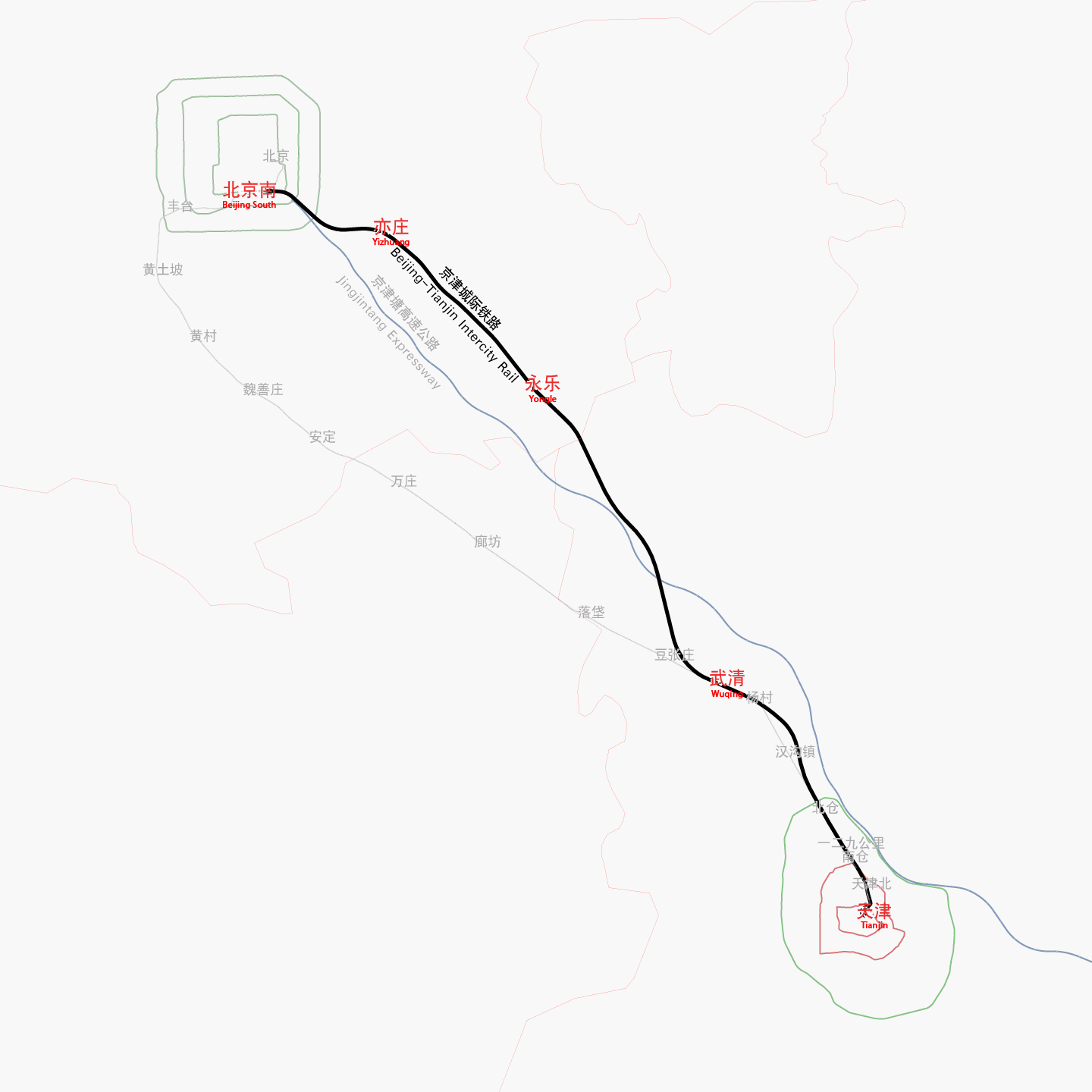 Map showing the line in relation to the current Beijing-Tianjin railway line and the Jingjintang Expressway.